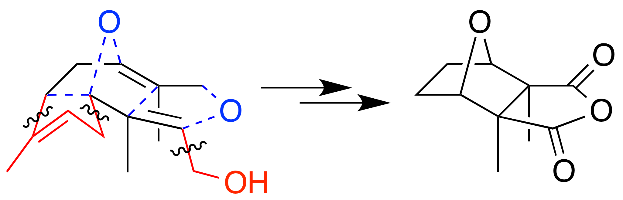 Skeletal structures for the proposed biosynthesis of cantharidin from farnesol based on Bonds to be formed and atoms added are blue, bonds to be broken and atoms structural segments removed are in red